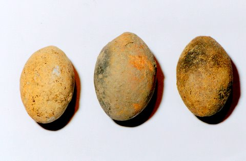 Sling bullets Roman period